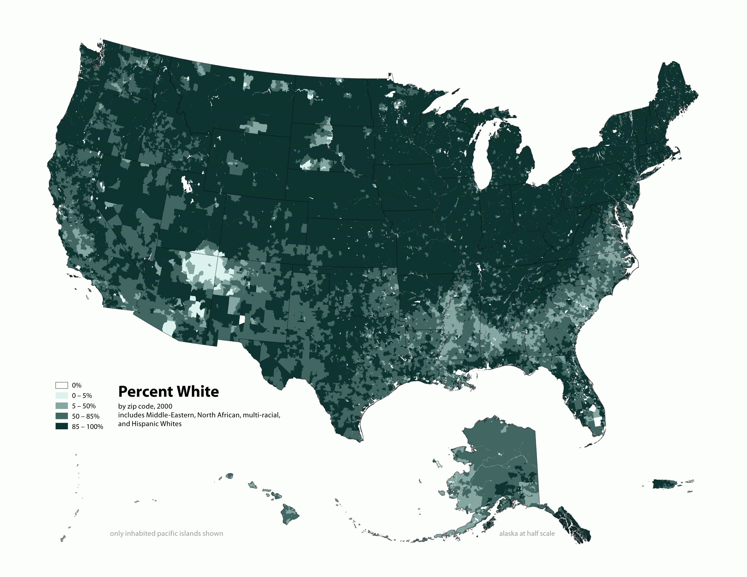 Map of US, showing percentage of population self-reporting as "White," by census tract, 2000. Data source: US Census similar maps: Image:New 2000 asian density.gif Image:New 2000 asian percent.gif Image:New 2000 black density.gif Image:New 2000 black percent.gif Image:New 2000 hawaiian density.gif Image:New 2000 hawaiian percent.gif Image:New 2000 hispanic density.gif Image:New 2000 hispanic percent.gif Image:New 2000 indian density.gif Image:New 2000 indian percent.gif Image:New 2000 white density.gif Image:New 2000 white percent.gif